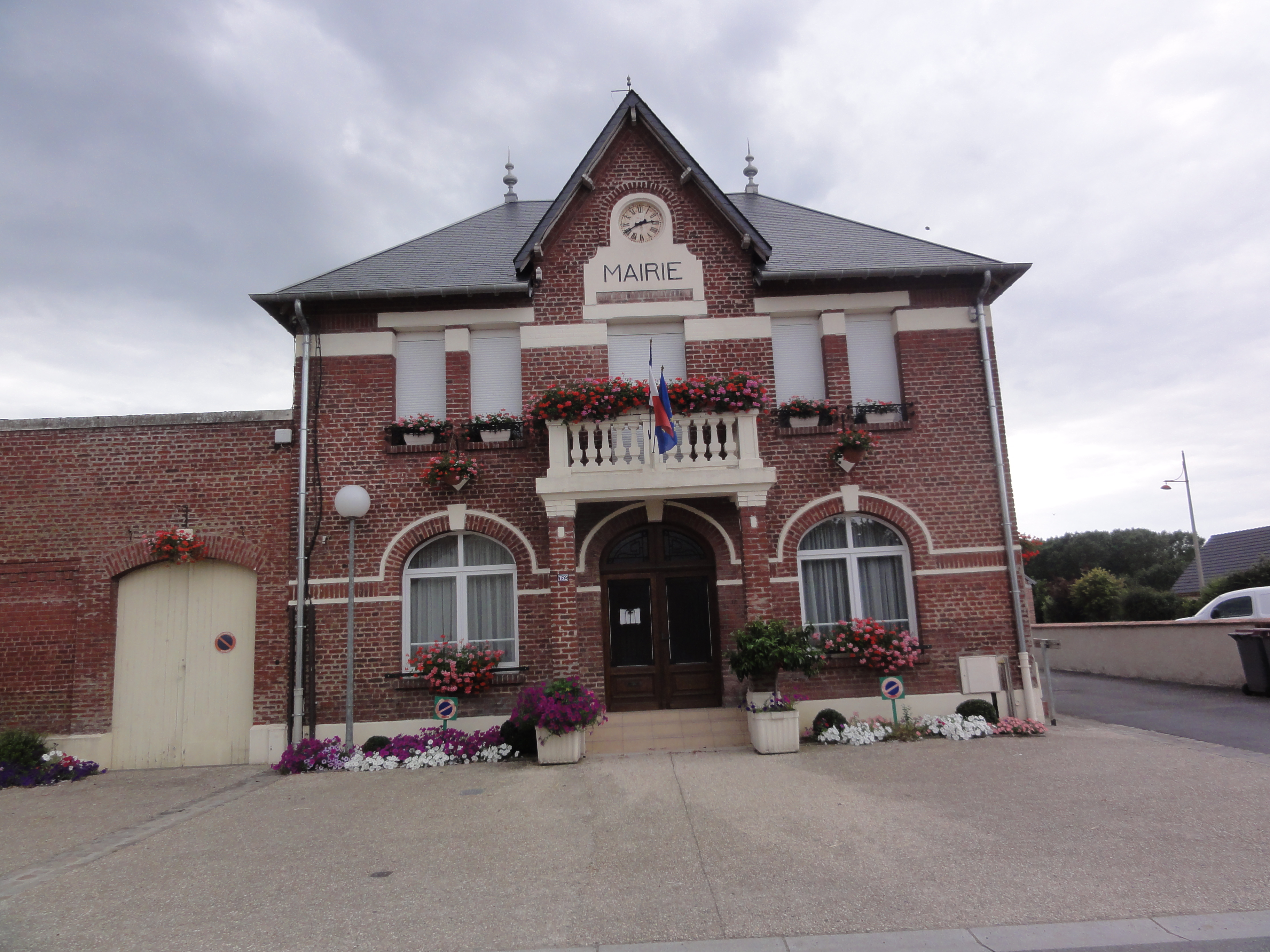 Condren (Aisne) mairie